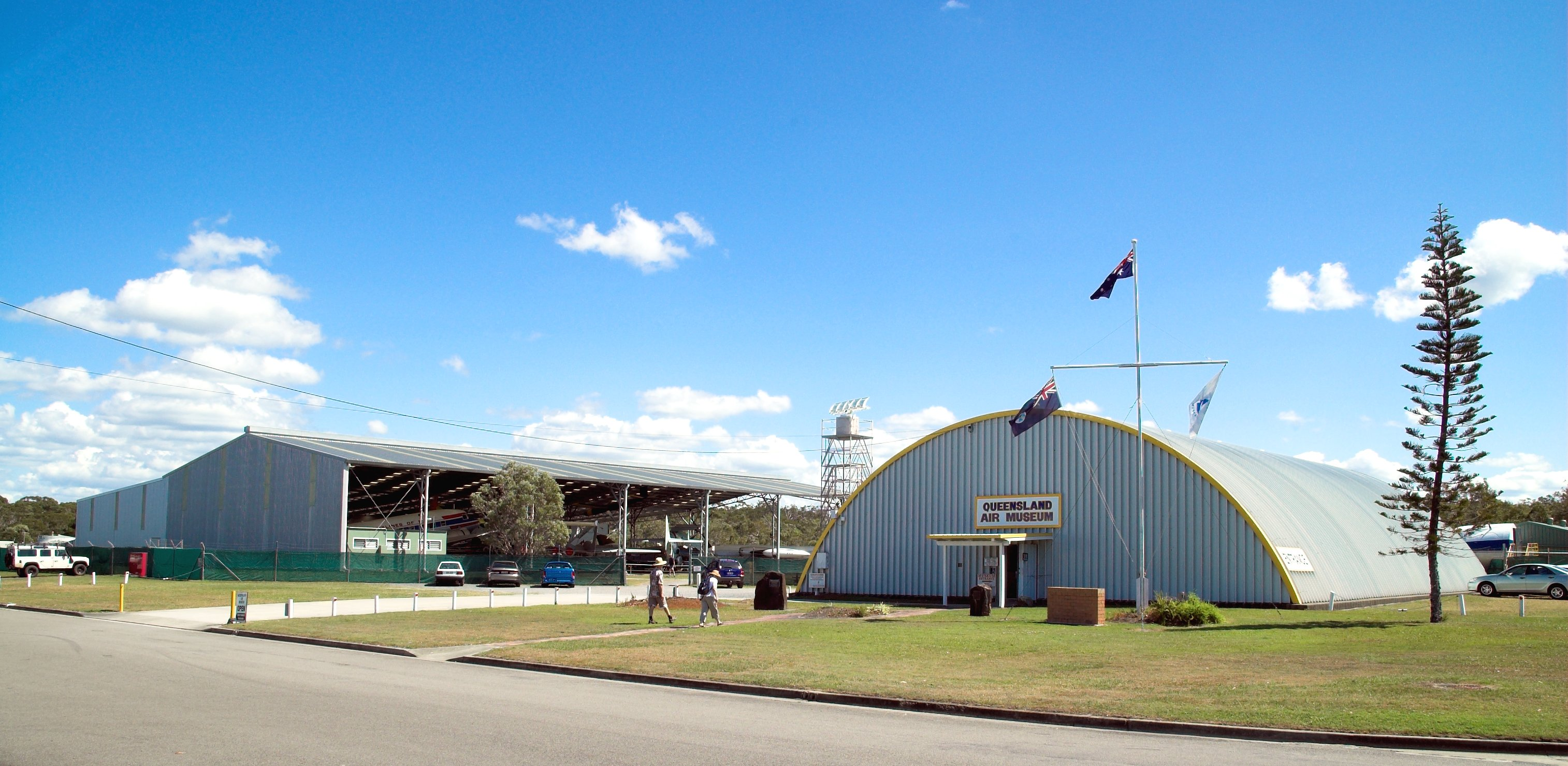 View of the Queensland Air Museum from front street.